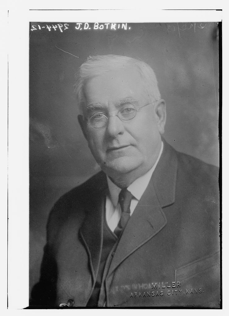 Jeremiah Dunham Botkin (April 24, 1849 – December 29, 1921) was a U.S. Representative from Kansas. Bain News Service,, publisher. J.D. Botkin between ca. 1910 and ca. 1915 1 negative : glass ; 5 x 7 in. or smaller. Notes: Title from unverified data provided by the Bain News Service on the negatives or caption cards. Forms part of: George Grantham Bain Collection (Library of Congress). Format: Glass negatives. Repository: Library of Congress, Prints and Photographs Division, Washington, D.C. 20540 USA, General information about the Bain Collection is available at Persistent URL: Call Number: LC-B2- 2944-12